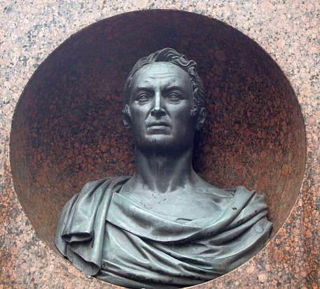 Бюст Н.М. Карамзина